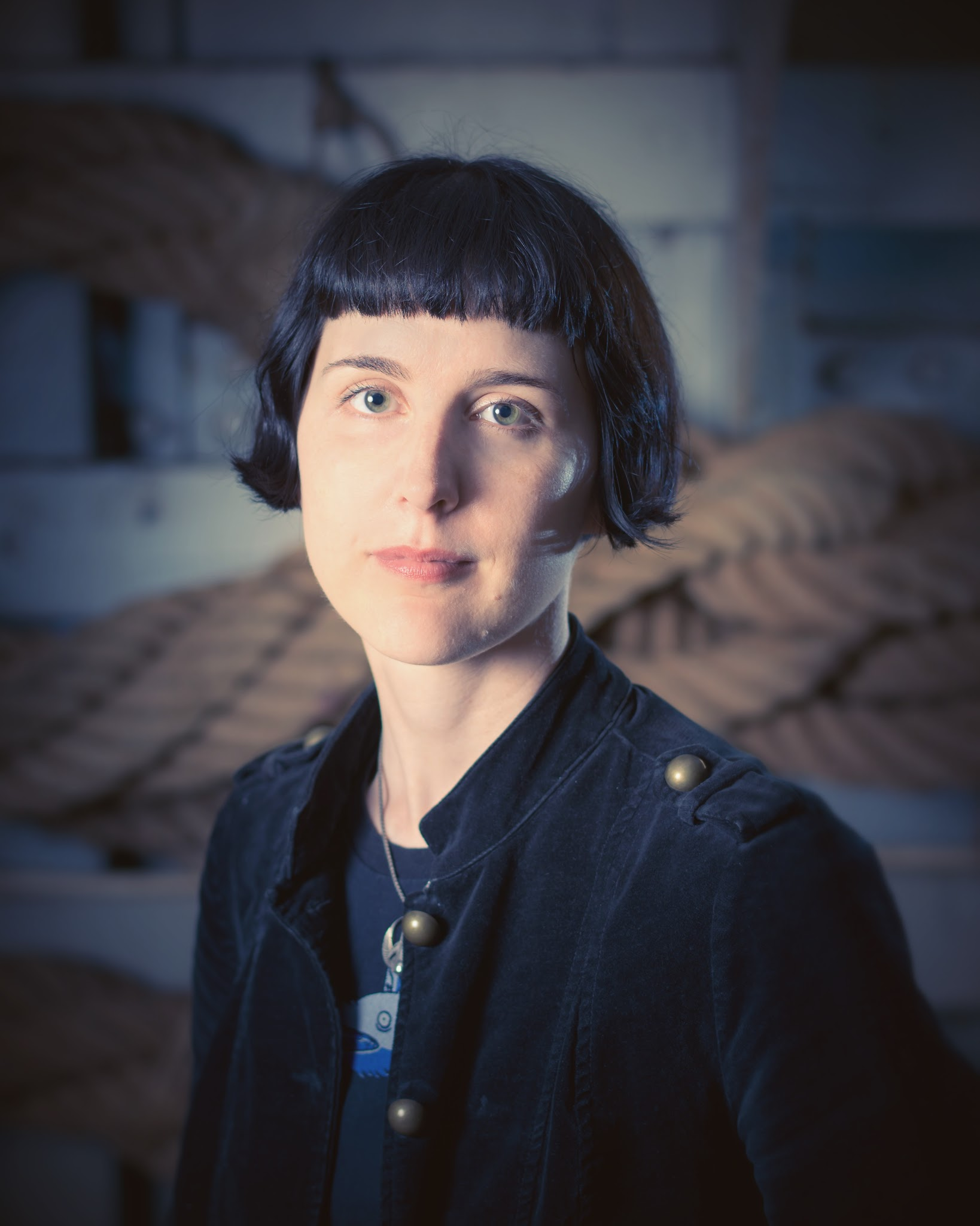 Swedish writer Karin Tidbeck at Archipelacon 2015.